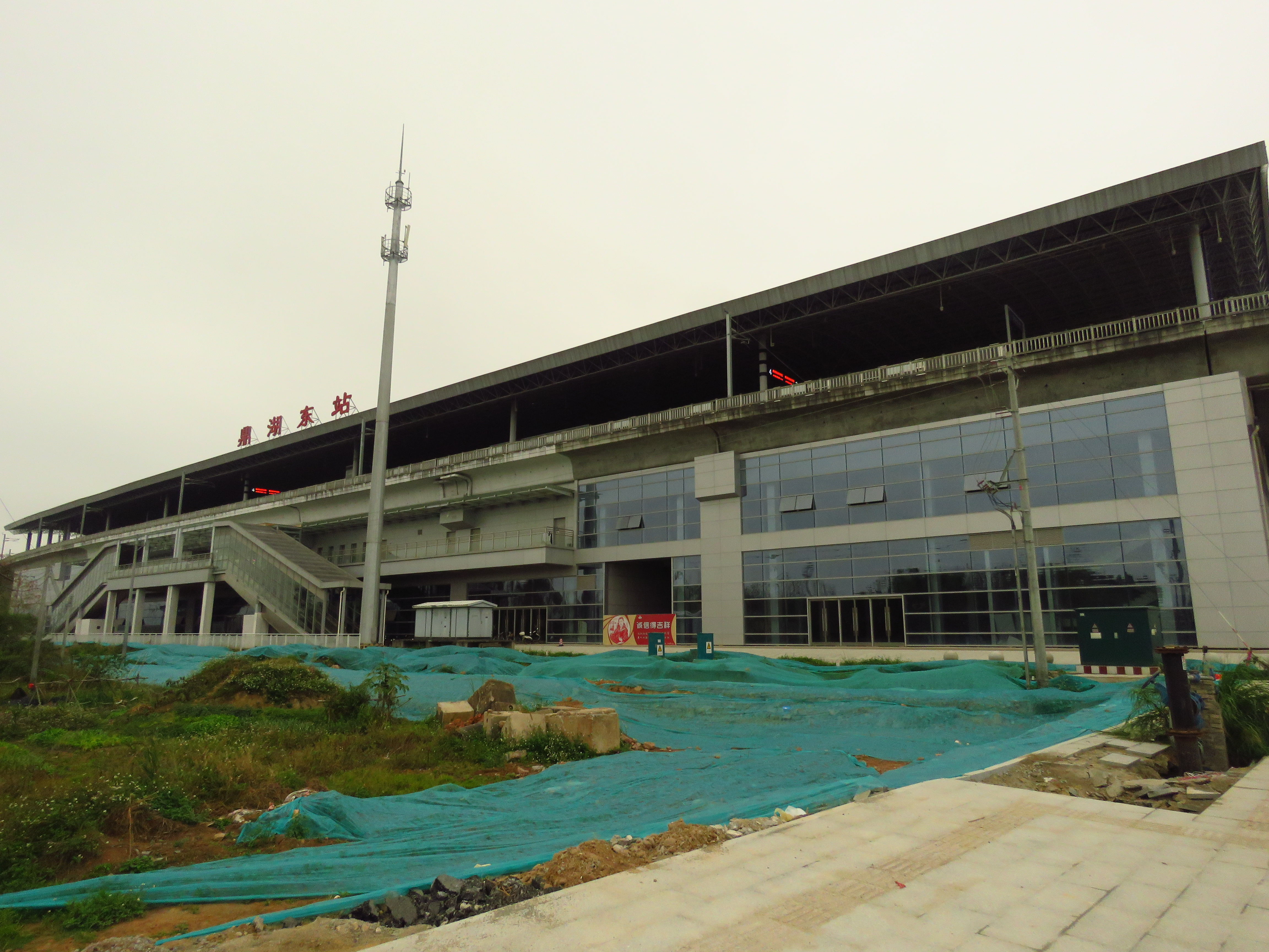 China National Railway Guangzhou-Foshan-Zhaoqing Intercity Rail Dinghudong Station west facade